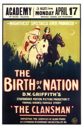 Poster for the American film The Birth of a Nation (1915) for a showing at the Academy of Music.